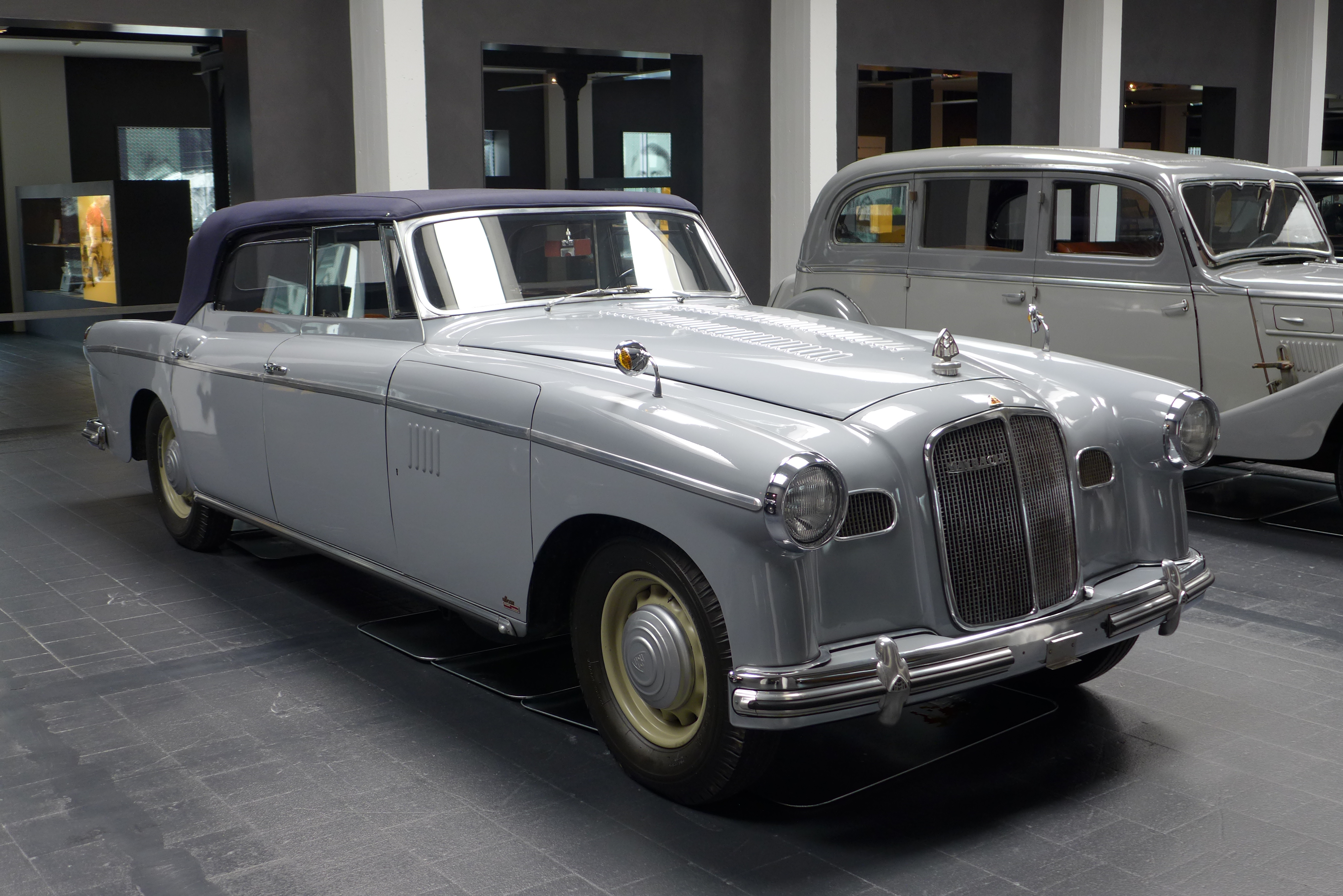 A 1938 Maybach SW 38 first owned by Preß- und Walzwerk AG Düsseldorf, part of theThyssen Group, and rebodied and fitted with a new 4.2 litre motor for Thyssen in 1950, on display at the Museum for Historical Maybach Vehicles, Neumarkt in der Oberpfalz, Bavaria, Germany.